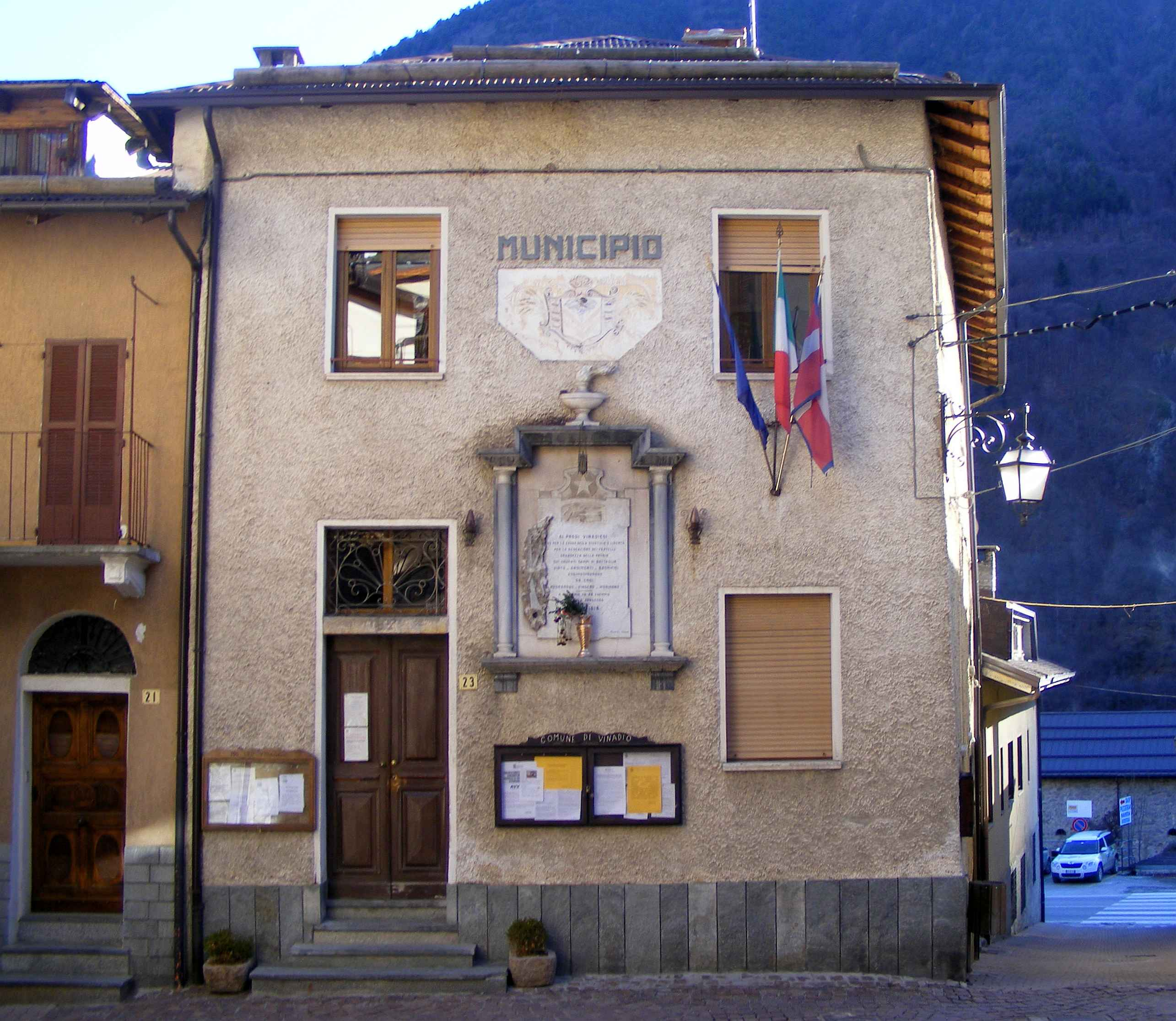 Vinadio (CN, Italy): town hall